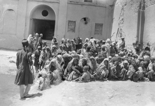 Famine relief at Bijar. Several hundred locals were rationed daily with soup or stew. At first they endeavoured to rush the kitchen the minute it was opened. Horrible scenes were witnessed. The local people soon learnt to queue quietly. Great numbers of locals still died on a daily basis from hunger..